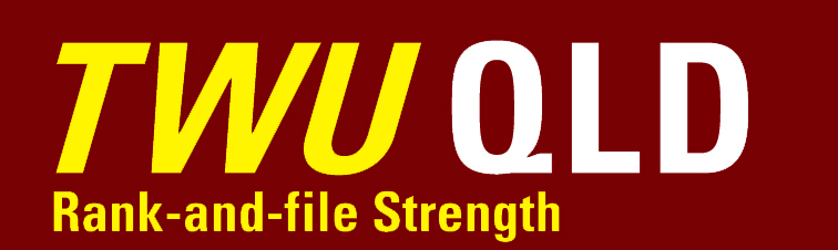 The logo of the Transport Workers' Union, Queensland Branch